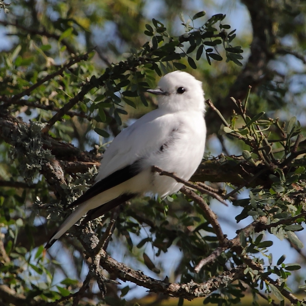 White Monjita at Capivara - Santa Fe - Argentina